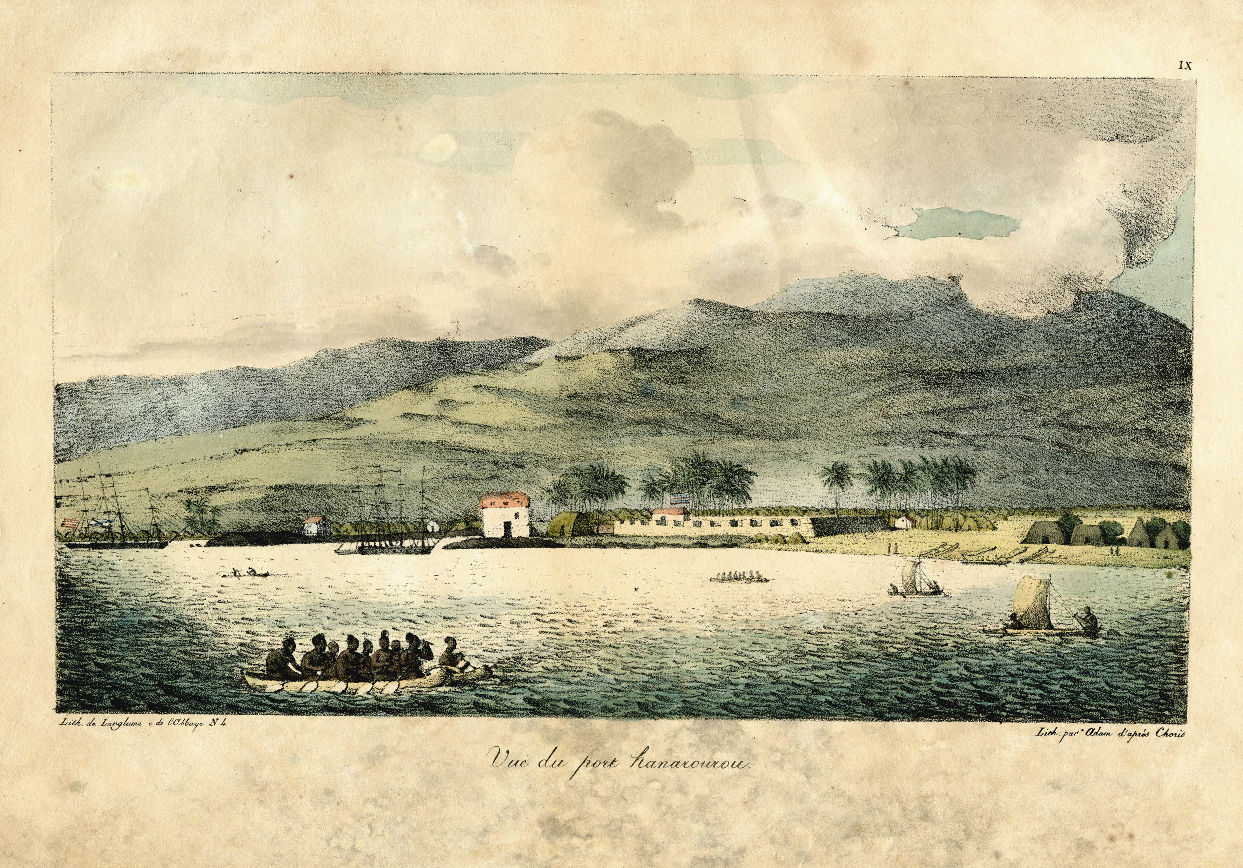 Vue du port hanarourou (View of the port of Honolulu), 1816. Louis Choris, artist. Published in Voyage Pittoresque du Autour du Monde, Paris, 1822. View of the port of Honolulu, from the sea. People, rowing on board outrigger canoes and sailing boats in the foreground. Two sailing ships docked in the background. A large permanent camp along the coastline with several western-style buildings, many thatched roof buildings, and the flag of Hawaii flying high. Mountains in the background, covered with low lying clouds. 1822. Lithograph, printed in blue, green, yellow and red.